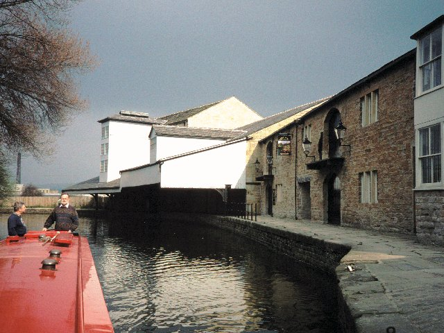 Burnley Weavers' Triangle. The Leeds and Liverpool Canal and the restored canal warehouses that now contain the Weavers' Triangle Visitors Centre.